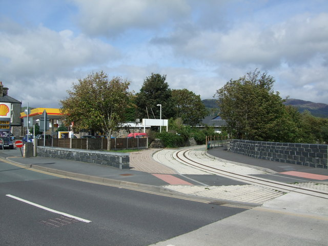 Turn right just before the Shell Garage for the railway at Porthmadog. As the title reveals this will be the route from and to Porthmadog station when the Welsh Highland Railway links with the Ffestiniog. See also 1478794 and 1478730 for a short journey.